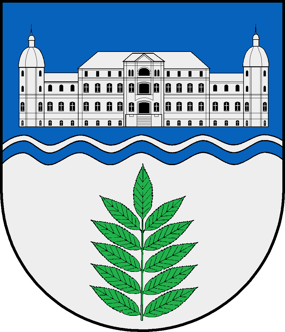 Coat of arms of the municipality Fargau-Pratjau in Schleswig-Holstein, Germany.